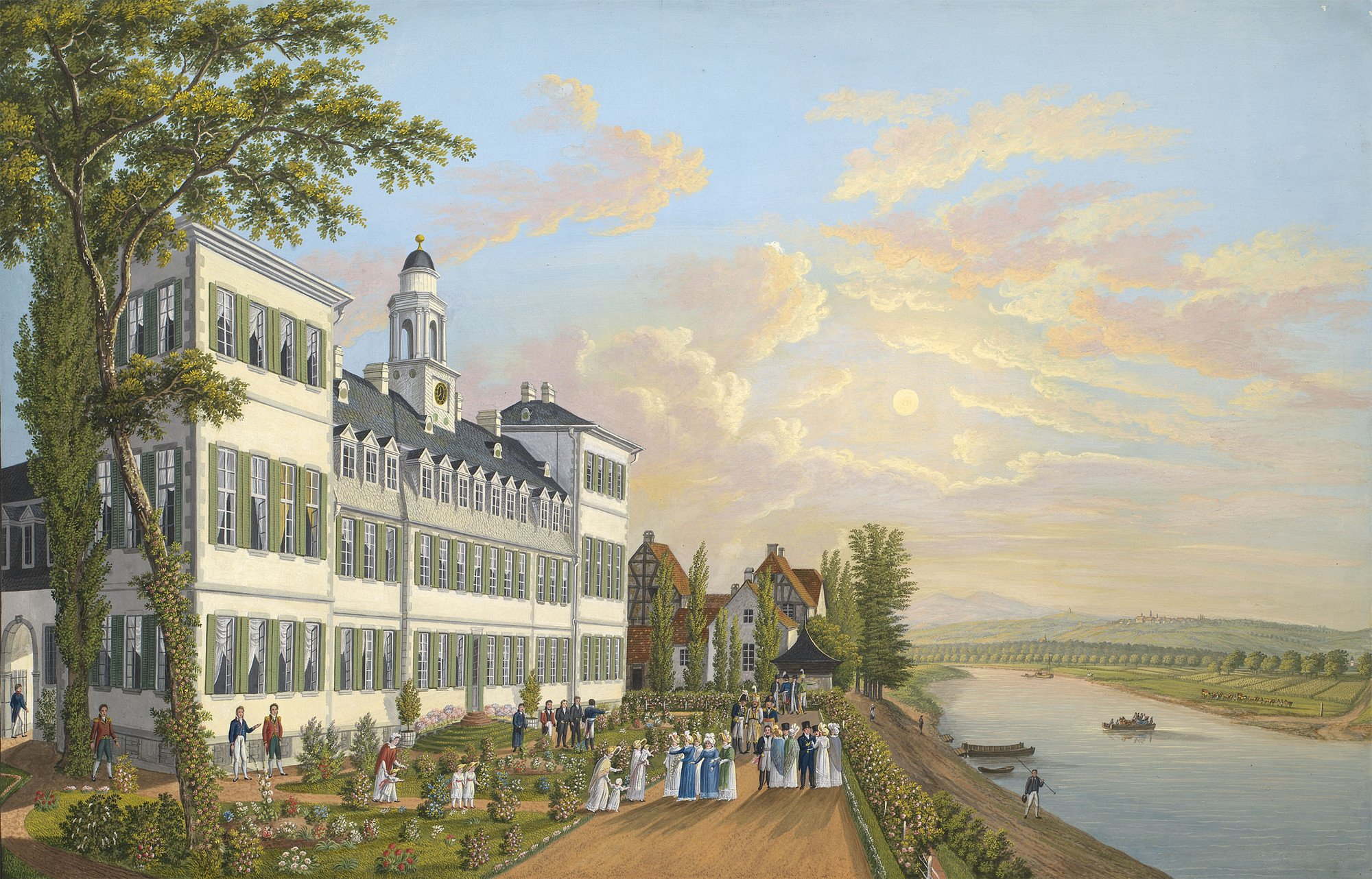 The house to left, the river to right. Many people walking in the flower gardens; a ferry boat, with carriage & horses, crossing the river.